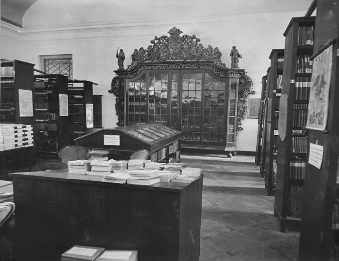 The library at the museum of the Royal Batavian Society of Arts and Sciences, Batavia